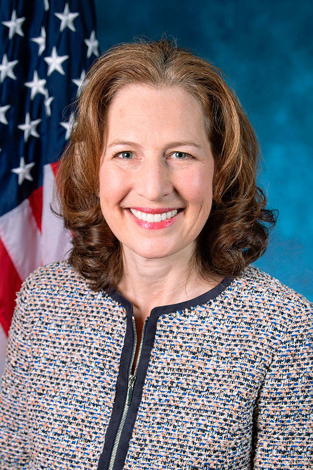 The official headshot of Rep. Kim Schrier (D-WA)